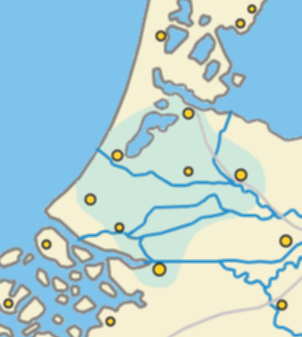 Dutch urban centers in the Eastern cities (Dutch Hanseatic cities) around the 14th/15th century.